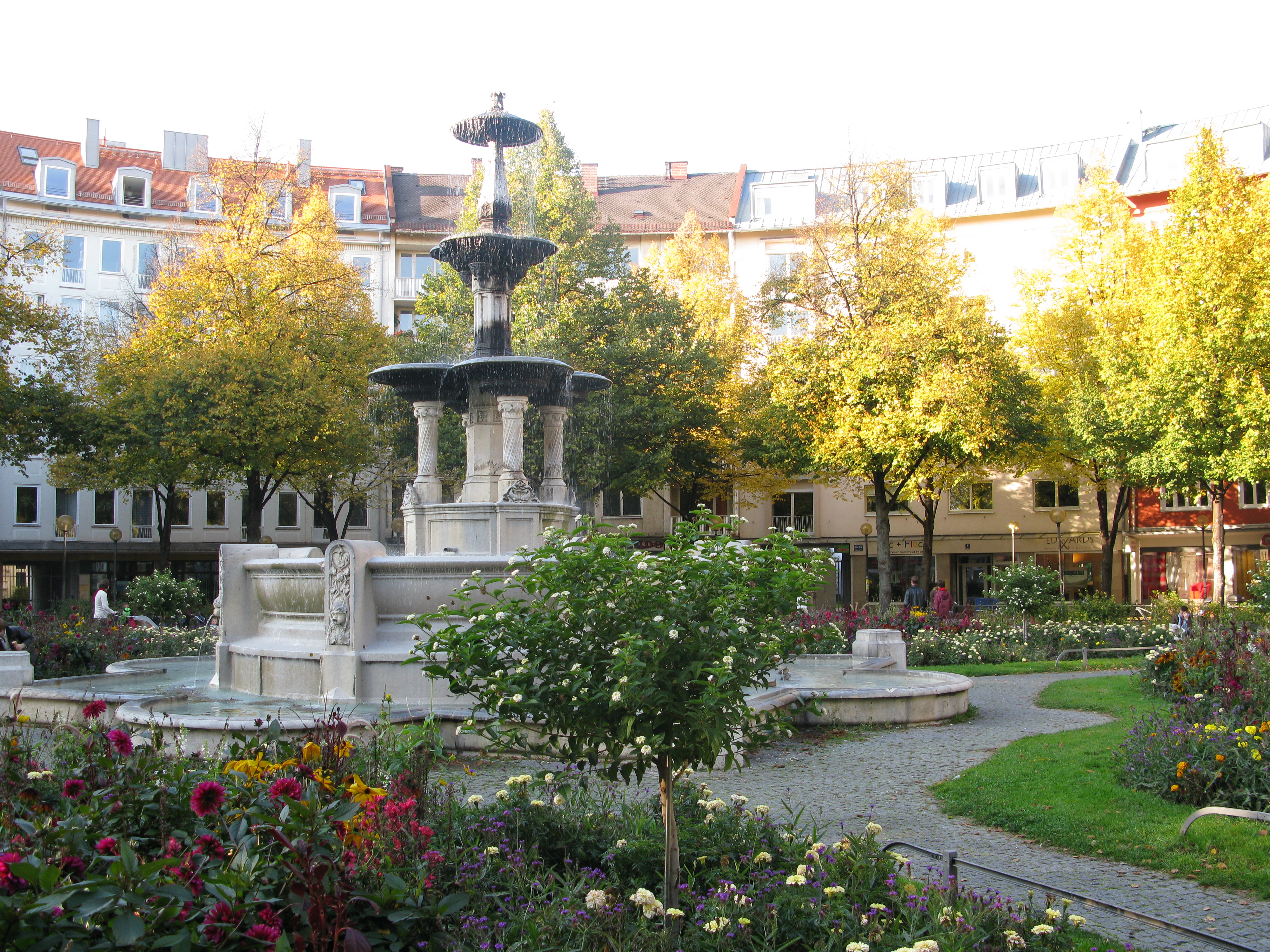 The Weißenburger Platz in the east of Munich (district: Haidhausen) with the Glaspalast-Brunnen in the middle.